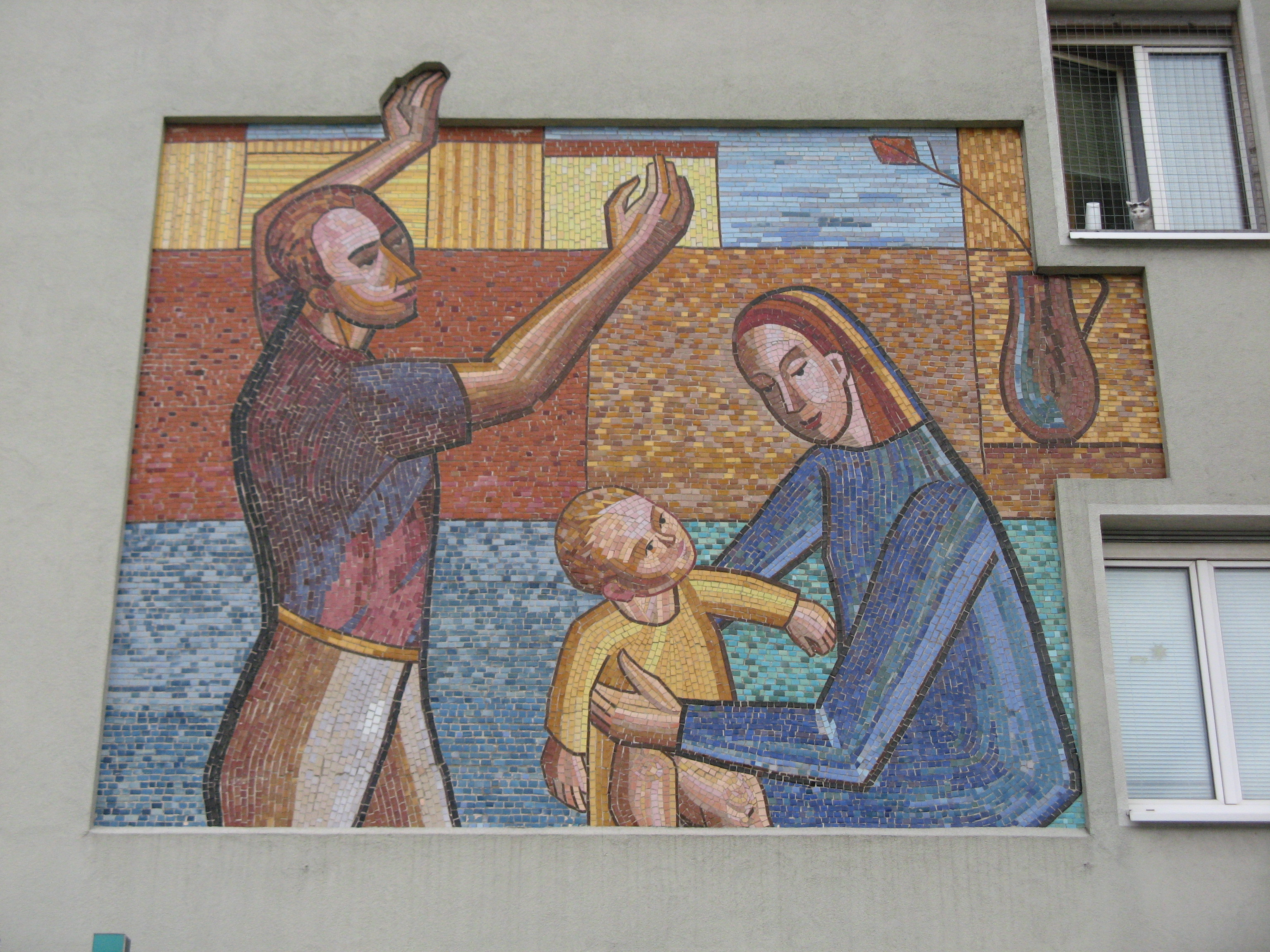 Family